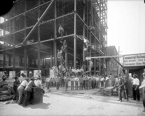 Construction of the Commercial National Bank building in Raleigh, North Carolina.